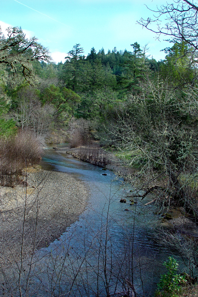 Rancheria Creek running through Galbreath Wildlands Preserve.